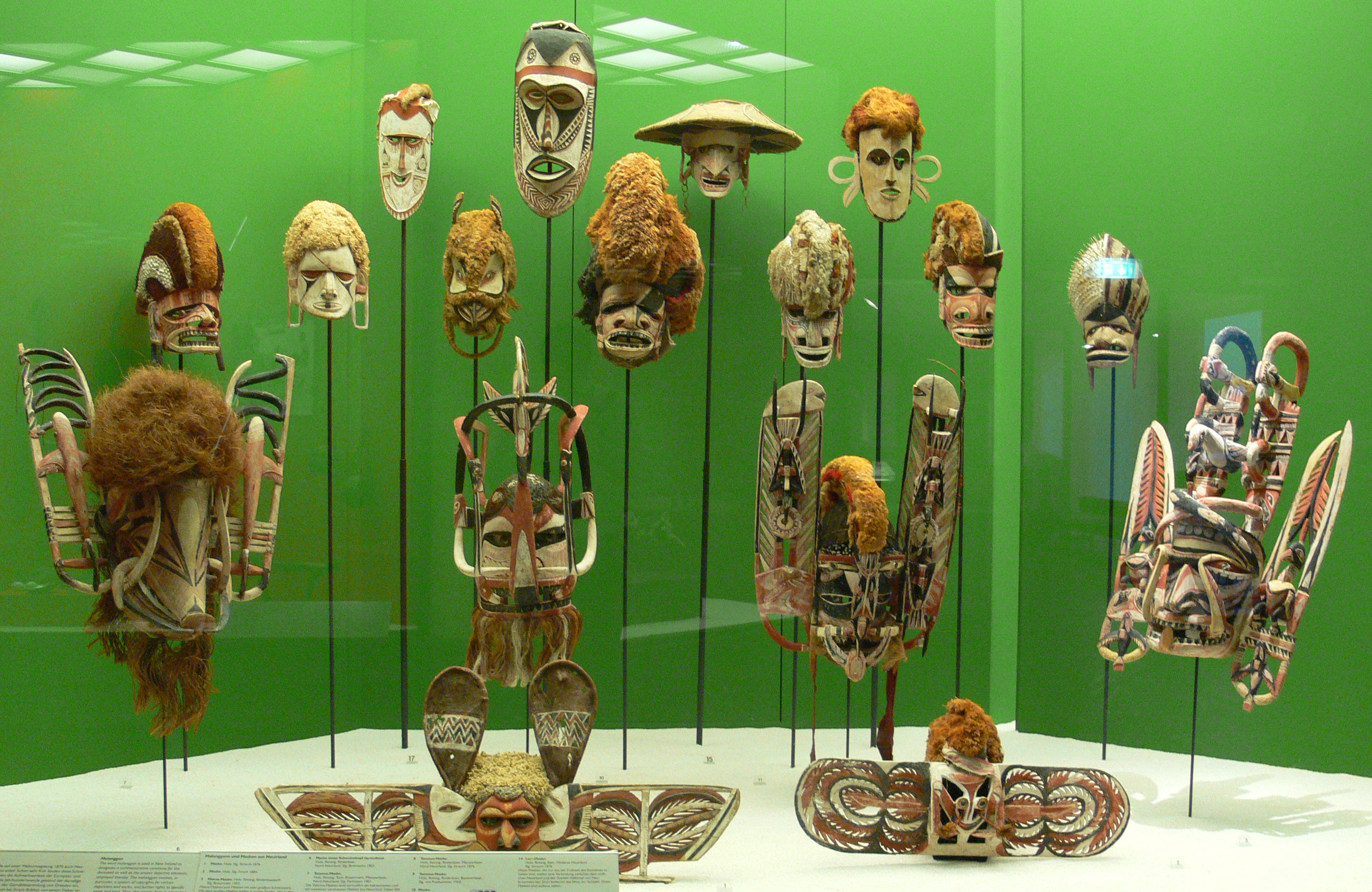 Malanggan masks from New Ireland. Ethnological Museum, Berlin-Dahlem.